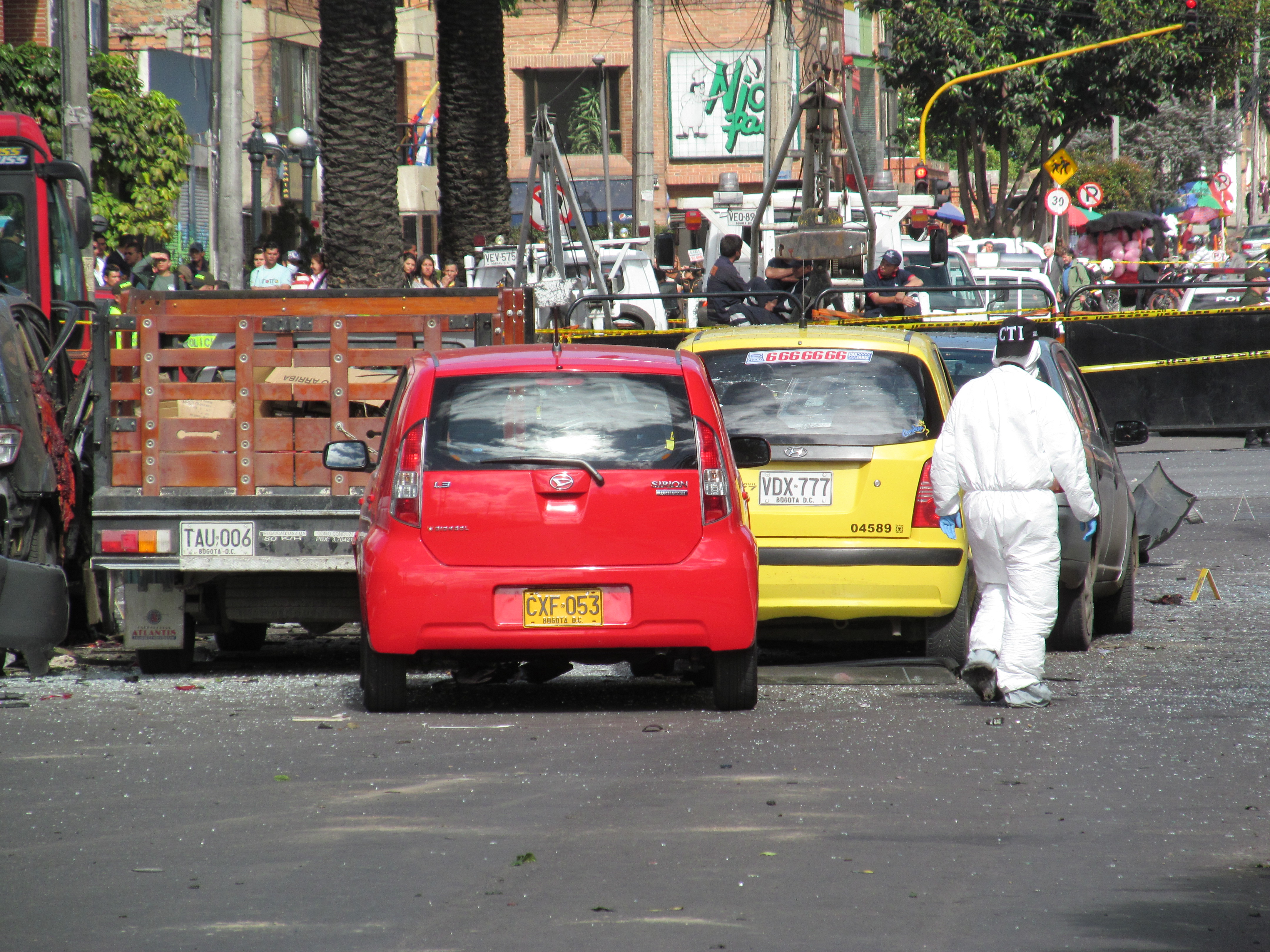 2012 Car Bombing in Bogota Colombia targeting the former minister, Fernando Londono.